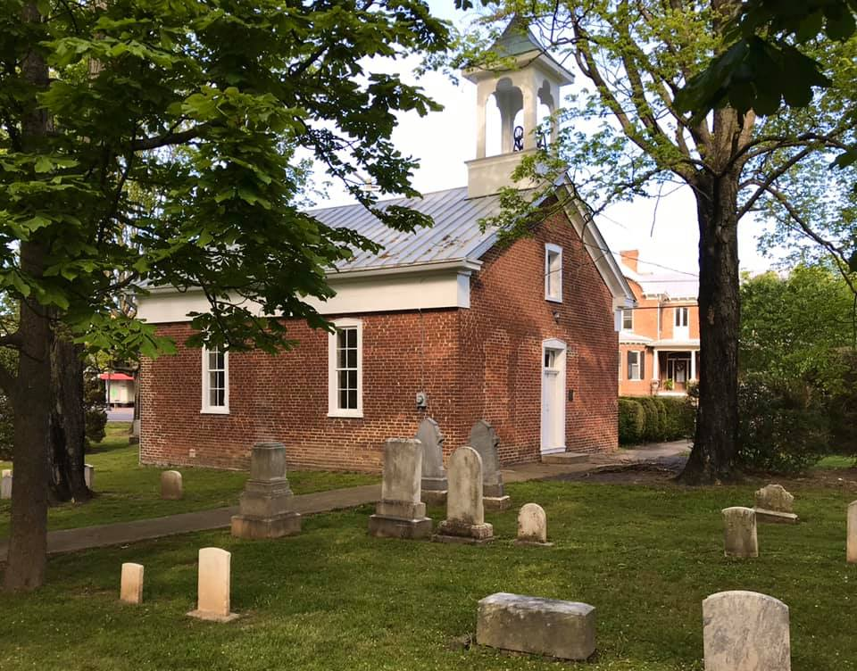 The Union Church, one of the oldest structures in Mt. Jackson, Virginia, is in the center of town and its cemetery is a resting place for its most prominent early citizens.